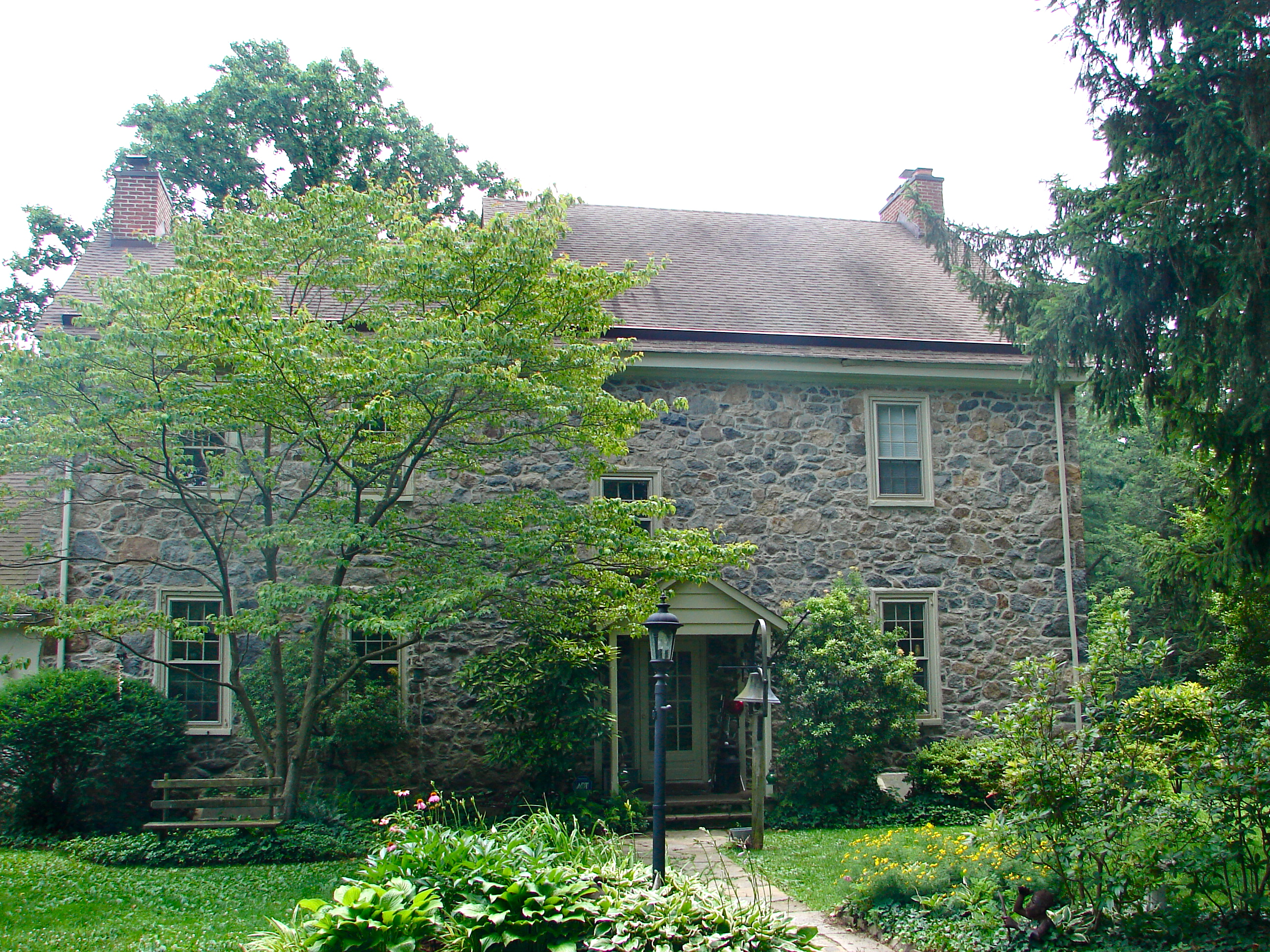 Abner Cloud House on the NRHP since August 31, 1992. At 14 Ravine Rd., Brandywine Hundred, "near" Wilmington in northern Delaware. Lots of trees- it may help to photograph this in the wintertime - but lots of fir tres as well